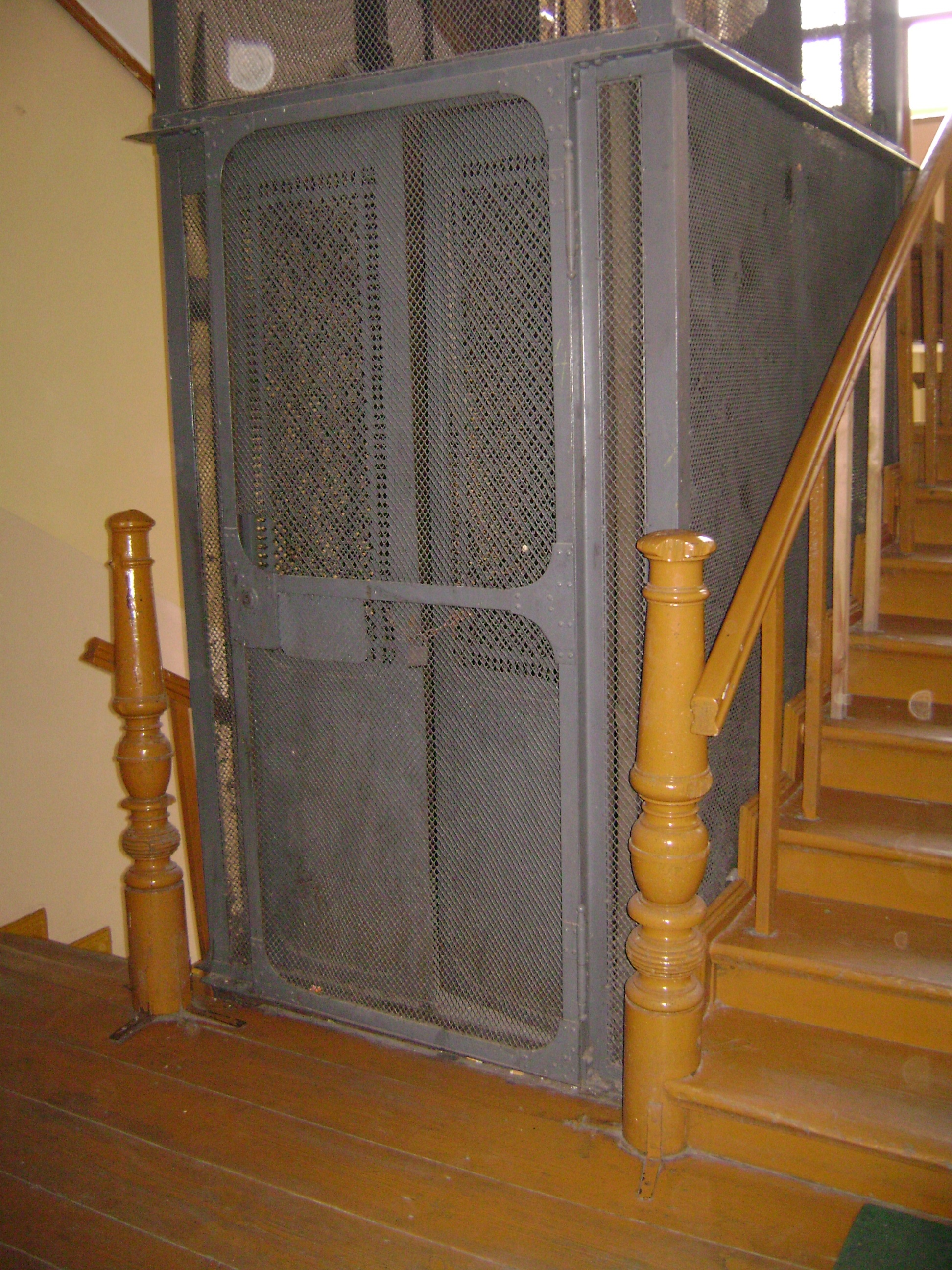 The oldest Elevator in Grudziądz (1890), Legionów Street 31